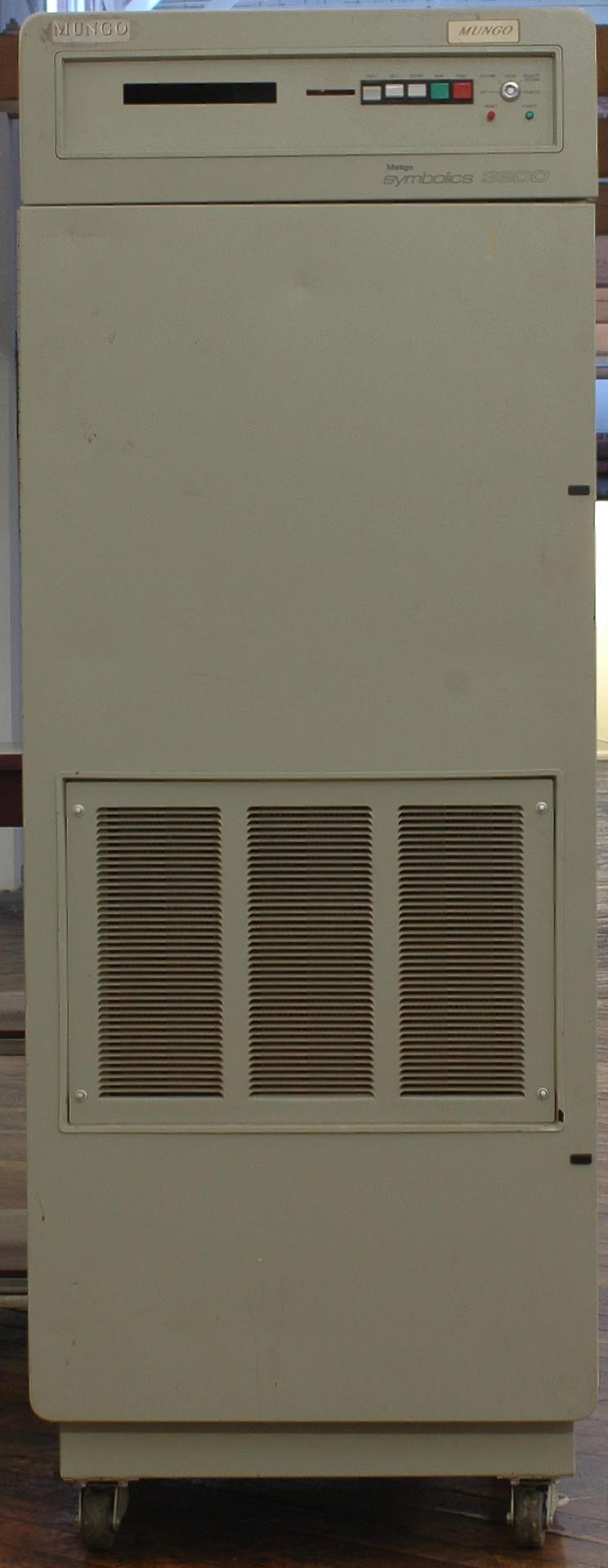 Symbolics 3600 Lisp Machine from the collection of the RCS/RI.